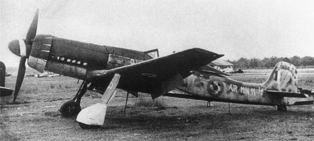 A captured Focke-Wulf Ta 152H fighter in extempore British markings after the war.